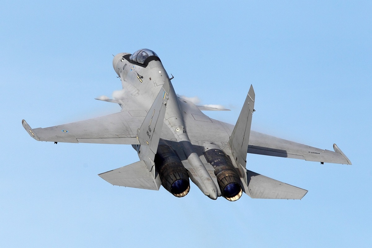 su30mkm engines seen at lima